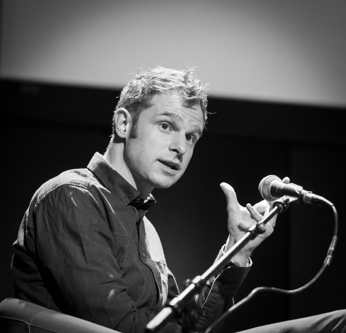 Snorre Valen in a debate in 2015.